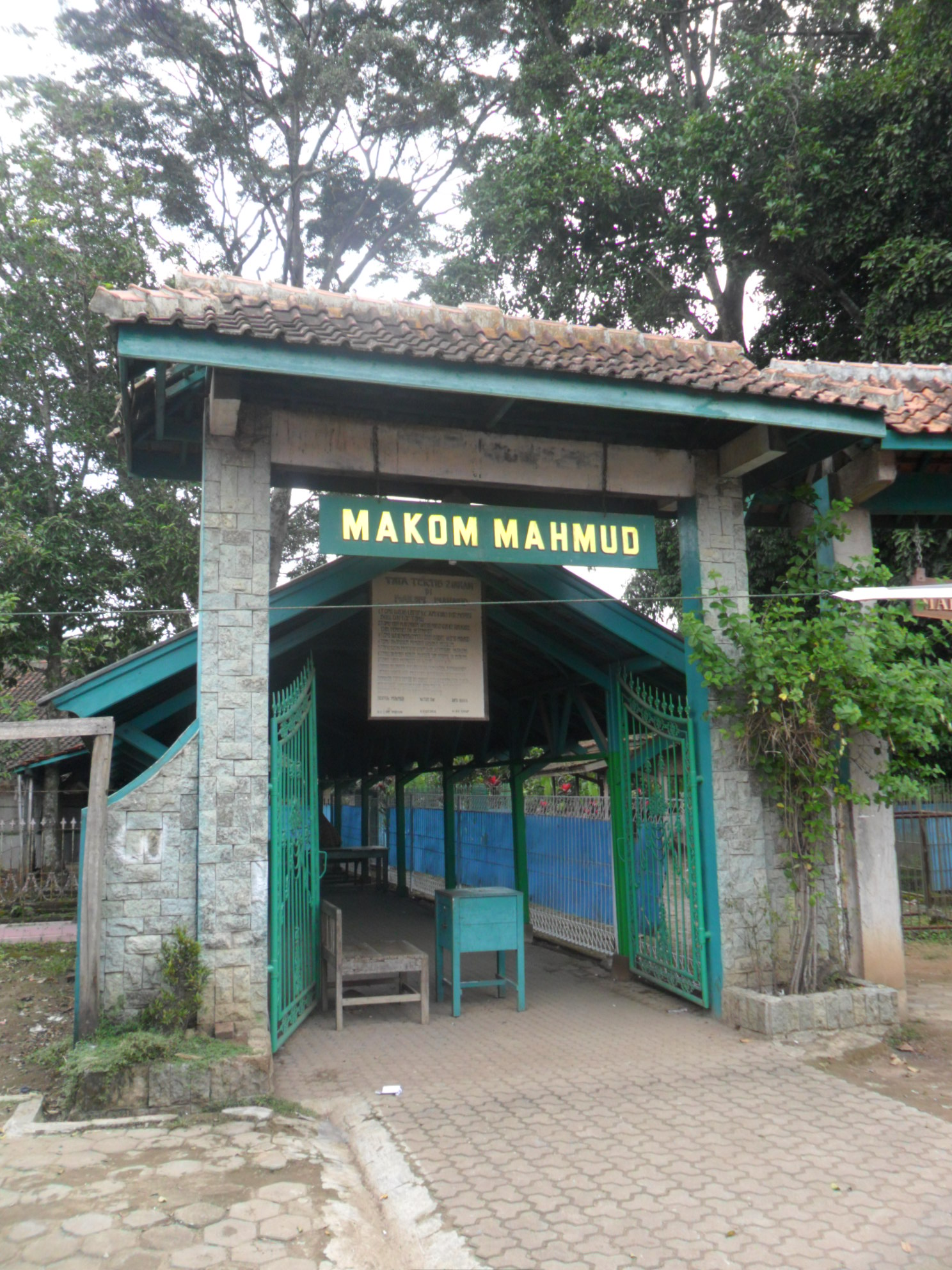 Makom Kampung Mahmud, Bandung